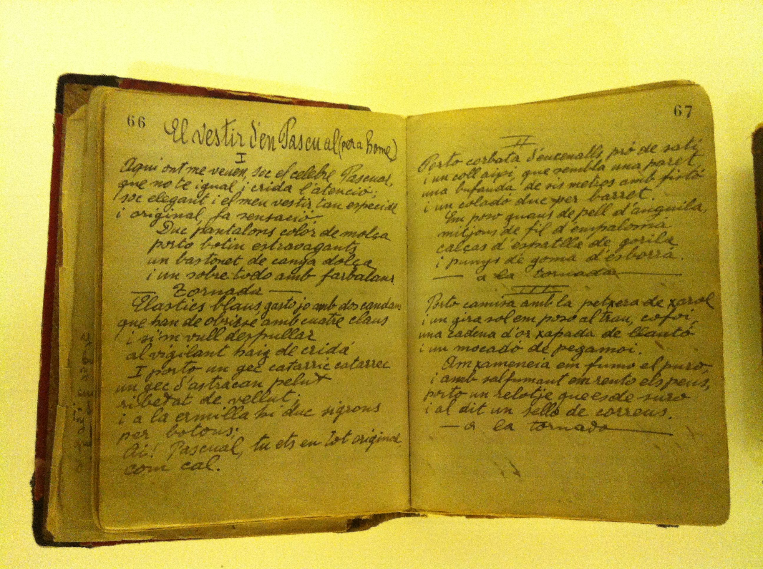 Pictures of an exhibit about The Paral·lel avenue in Barcelona that took place in CCCB cultural center between october 2012 and feb 2013. El Paral·lel emerges from the project to extend the city designed by Ildefons Cerdà. From its birth, a series of contradictory urban planning regulations facilitated the appearance of ephemeral buildings and the conversion of this street into a dense area of leisure and entertainment. The result was a leisure district for the masses, perfectly comparable to those existing in other major European urban agglomerations at that time, but that immediately became a genuine cultural expression of the social and political conflict that characterised the Barcelona of the early 20th century. El Paral·lel generated shows with perfectly differentiated contents and formats, made up by the audience and the artists. This exhibition will explain, therefore, why a new entertainment area emerged in the city, leading the weight of the theatrical axis to move from the Plaça Catalunya-Passeig de Gràcia area to the Nou de la Rambla-Paral·lel area.